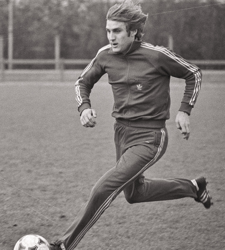 Belgian international football players Ludo Coeck and Jan Ceulemans training with Belgium's national football team on 18 November 1980